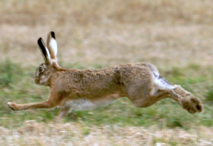 The European Hare or Brown Hare (Lepus europaeus) is a species of hare native to northern, central, and western Europe and western Asia.